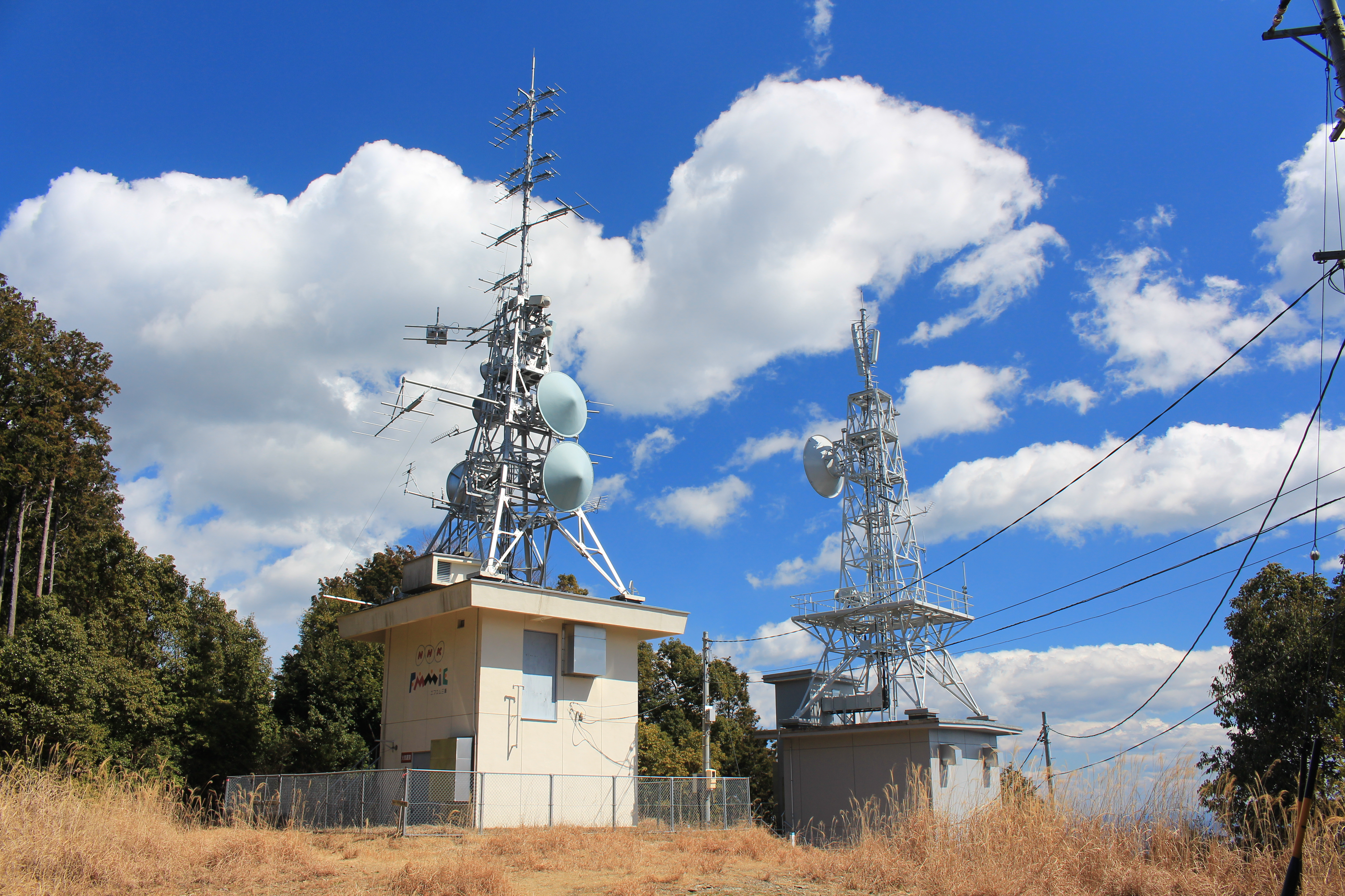 Owase Repeater on Mount Tengura, in Owase, Mie prefecture, Japan.